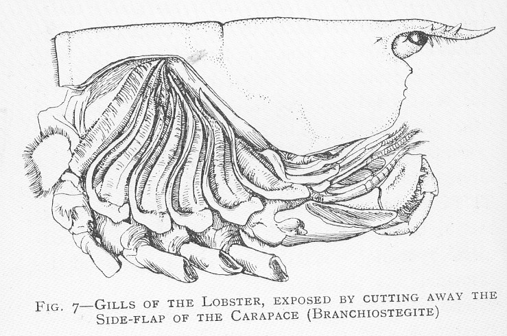 Gills of the Lobster, Exposed by Cutting Away the Side-Flap of the Carapace (Brahcniostegite) Subject: Lobsters--Anatomy, Homarus--Anatomy Tag: Shellfish